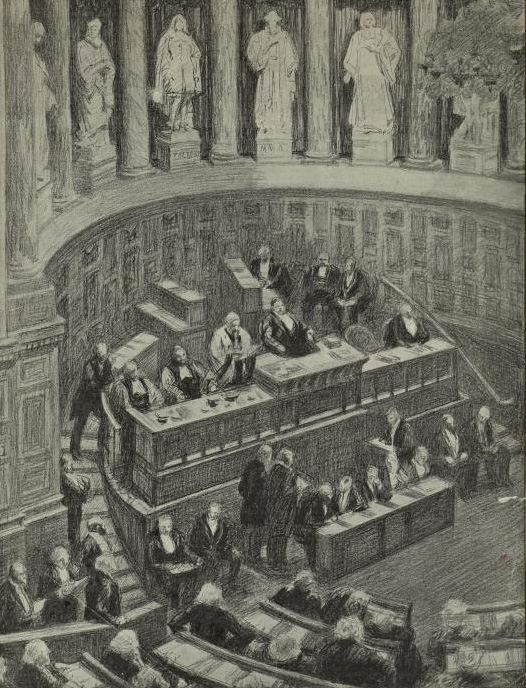 "The state trial in Paris resumed this week. The high court of justice in session in the senate chamber in the Palais de Luxembourg", Written on border: "Nov. 1899"